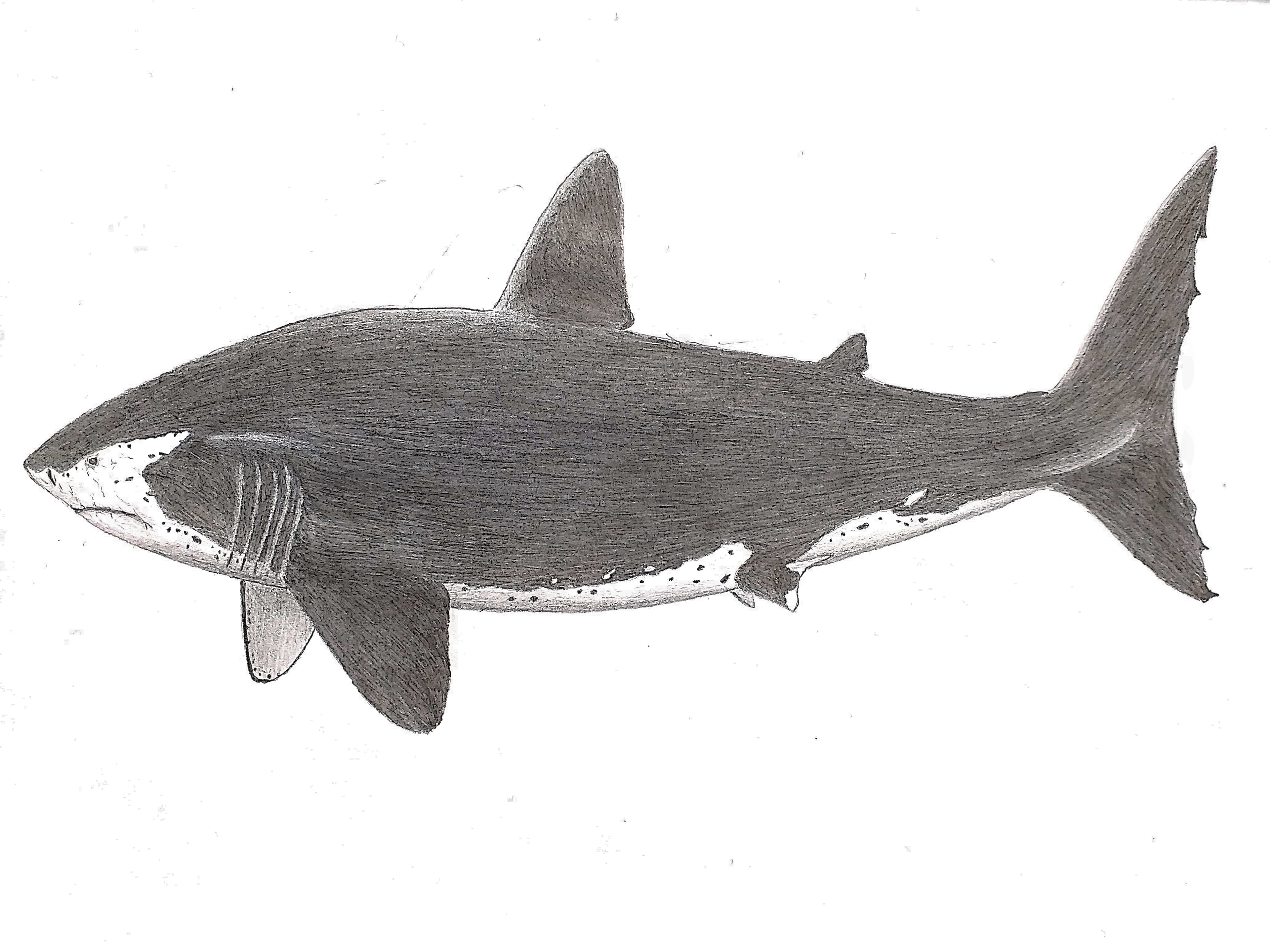 My reconstruction is based on Cretalamna (for jaw morphology) and Cretoxyrhina (for the head shape, but i make it with a shorter snout for great bite and a huge post-head muscular hump), Alopias genus (also for head shape), Great White shark (for fin proportions, but I added a wider pectoral, dorsal and caudal fins), Killer Whale (for countershading)